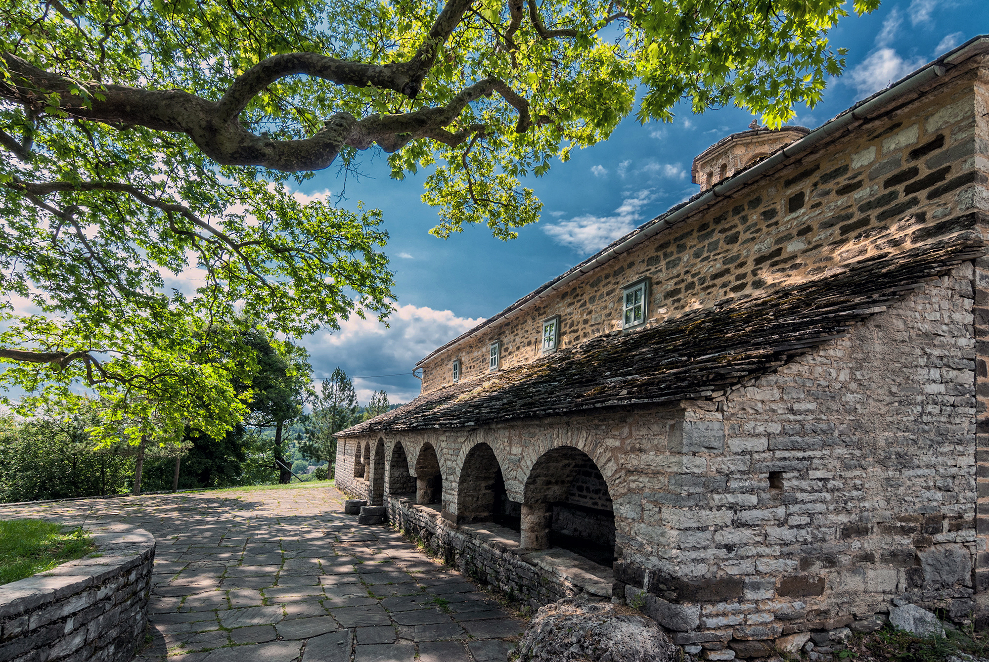 This is a photography of Natura 2000 protected area with ID GR2130009